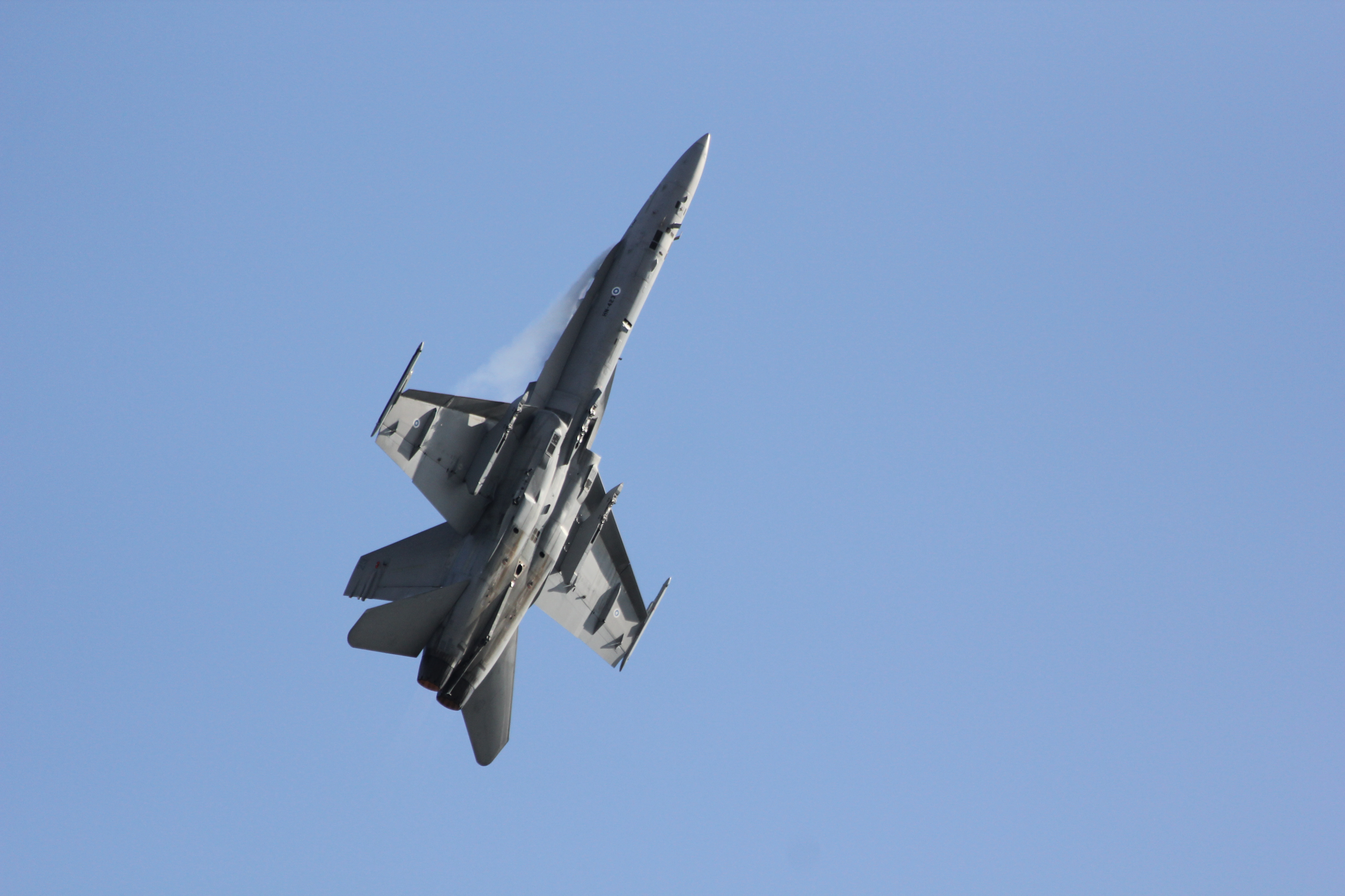 Finnish air force F-18C Hornet (HN-423) flying aerobatics over Oulu Airport at Tour de Sky 2014 air show.